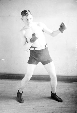 Full-length portrait of pugilist Dave Shade standing in a boxing stance in front of a light-colored backdrop in a room in Chicago, Illinois, light exposure.